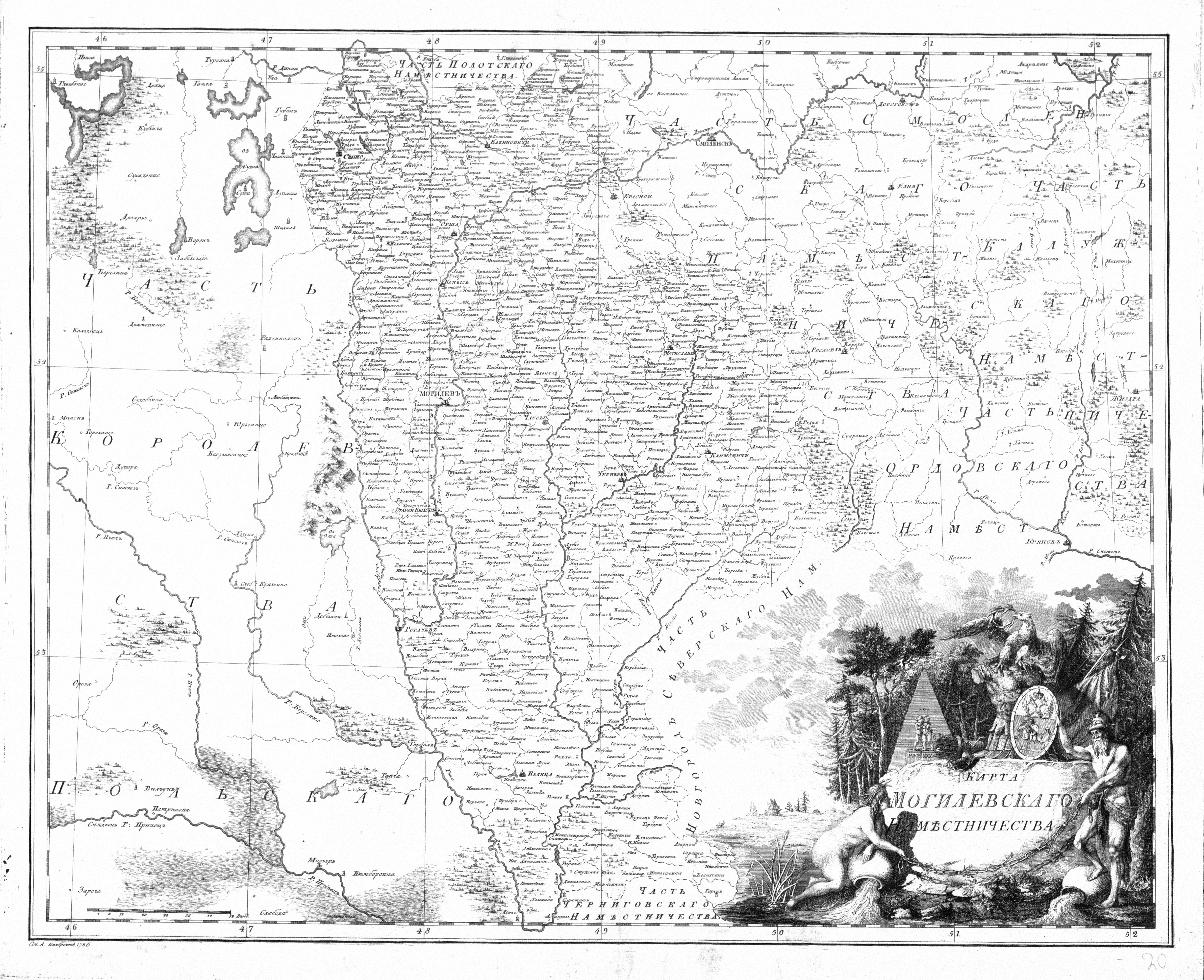 Map of Mogilev Namestnichestvo (sheet 20) from official Atlas of the Russian Empire (1792).